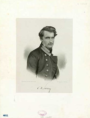 Christian Wilhelm Sigismund Schønberg (1821-1859), Danish jurist and politician, MP